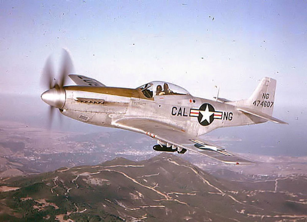 194th Fighter Squadron - North American F-51D-30-NA Mustang 44-74607